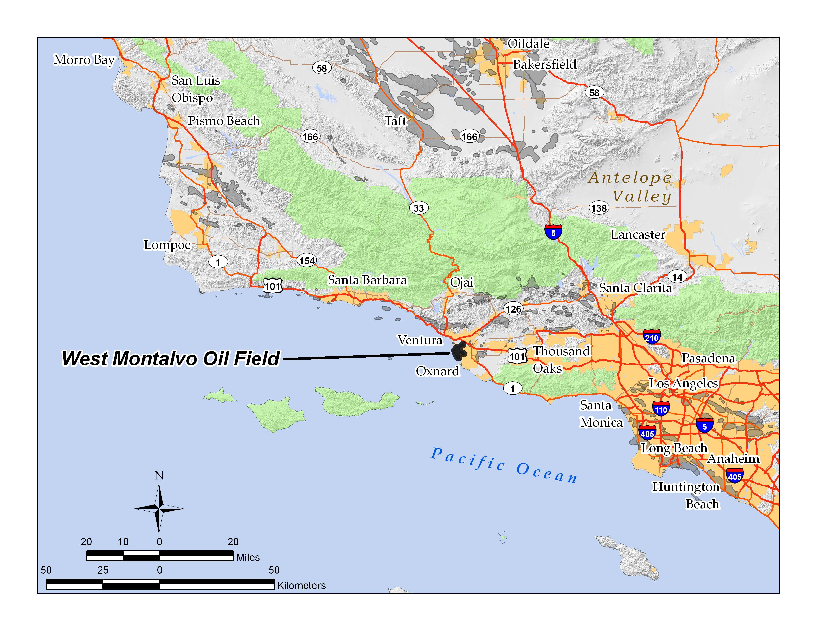 Location of Montalvo field, in ArcGIS 9.3, by self, GFDL/equiv